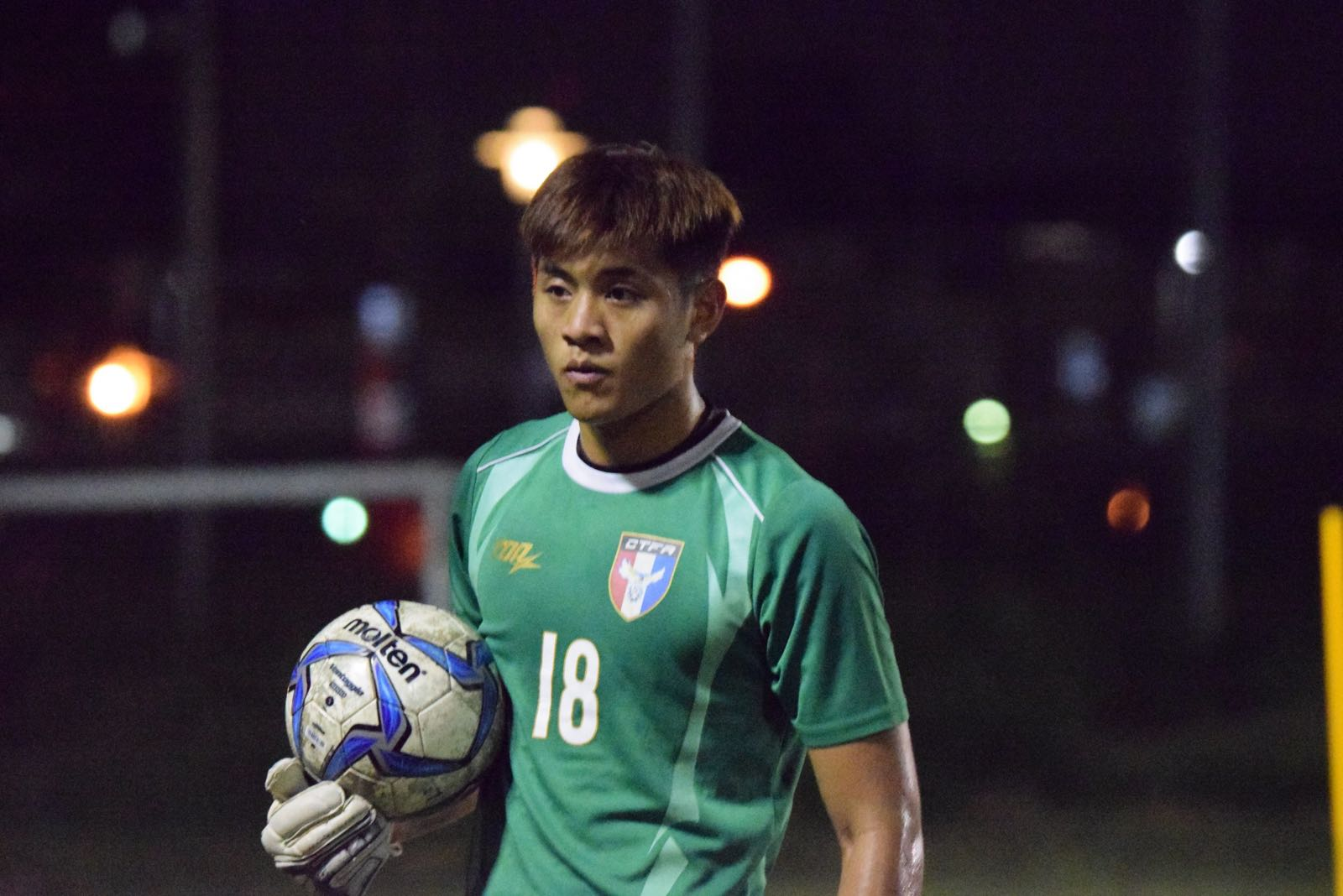 Tuan Hsuan